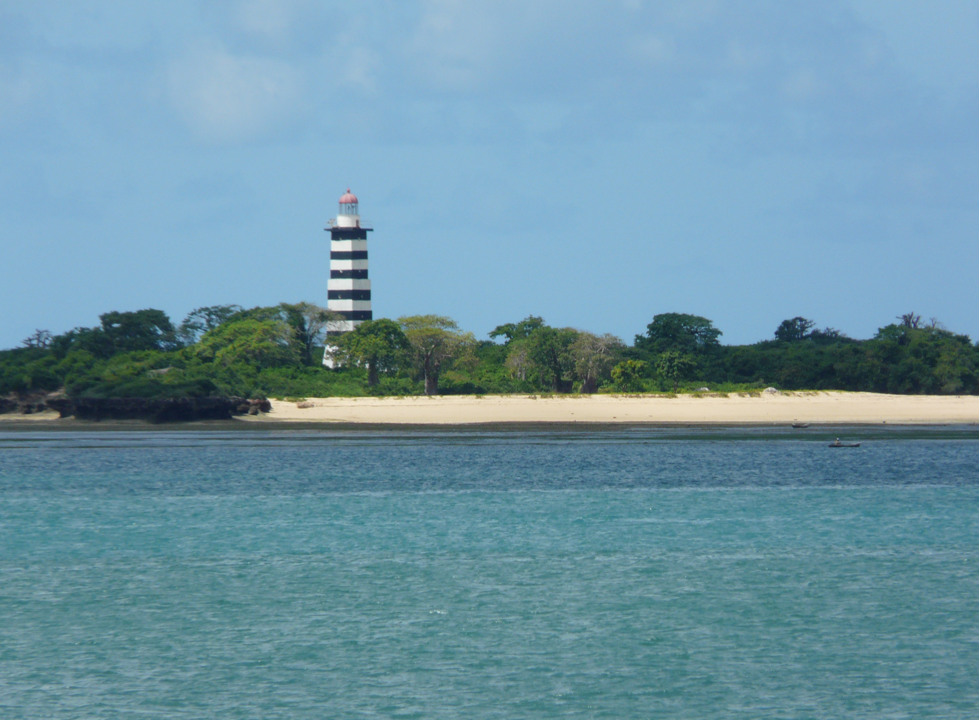 A lighthouse in Zanzibar Outer Makatumbe (Dar es Salaam Bay Range Rear) Lighthouse